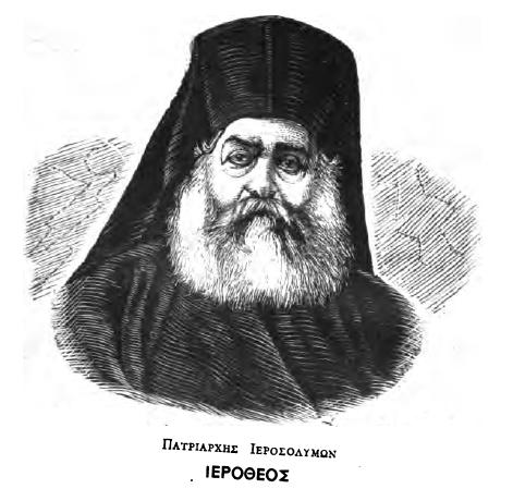 Poikilē stoa: ethnikē eikonographēnenē epetēris ... Etos 1-16, 1881-1914 (1882) Author: Ioannes A. Arsenēs , Michael A . Raphaelobits Volume: 3-4 Publisher: Estia Year: 1882 Possible copyright status: NOT_IN_COPYRIGHT Language: Greek Digitizing sponsor: Google Book from the collections of: Harvard University Collection: americana